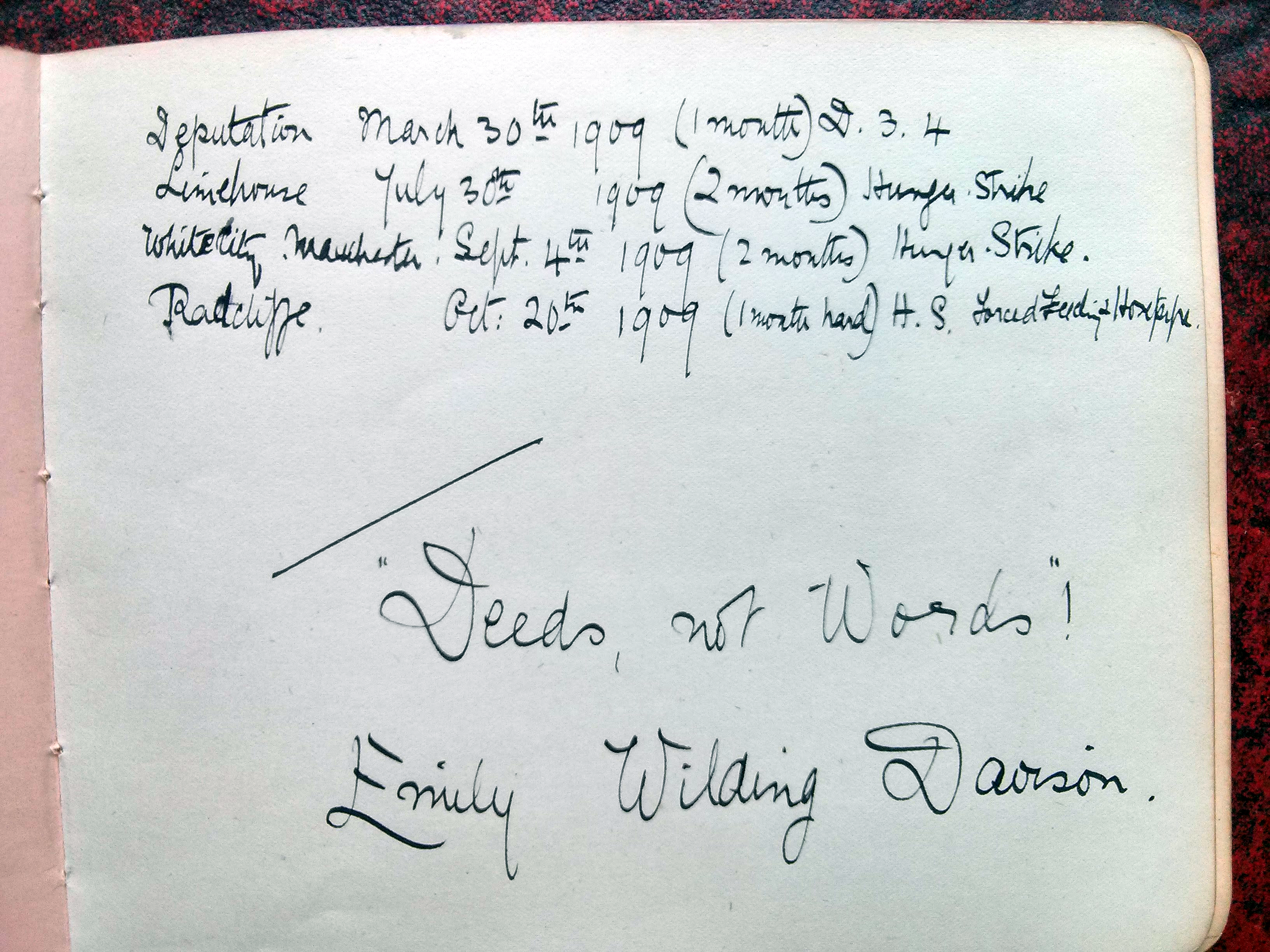 Entry in Mabel Henrietta Capper's scrapbook of hunger striking suffragettes